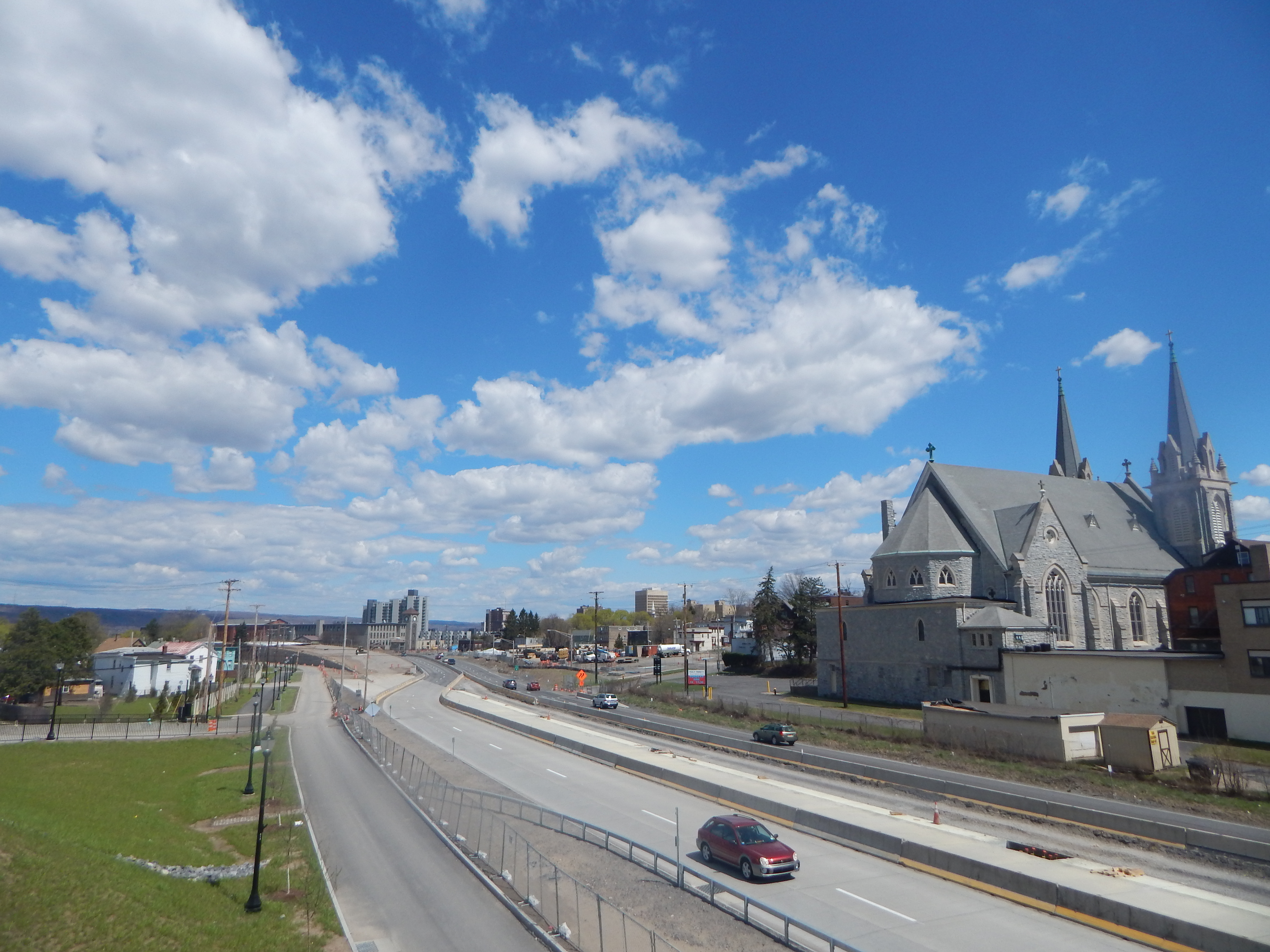 New York State Route 5, New York State Route 8, New York State Route 12 through Utica, New York.